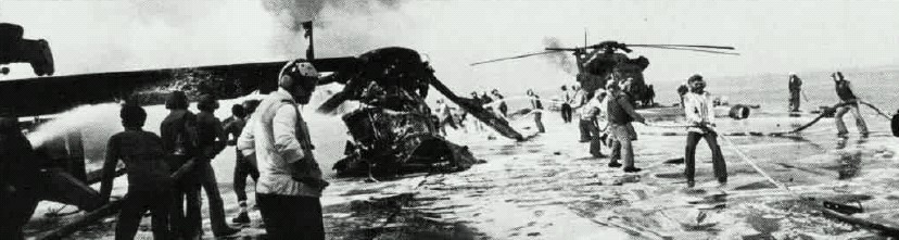 U.S. Navy sailors trying to fight a fire on the amphibious assault ship USS Guam (LPH-9) on 19 July 1981. While operating 50 km southeast of Morehead City, North Carolina (USA), a Sikorsky CH-53 Sea Stallion crashed into another CH-53 and a Bell UH-1N Twin Huey upon landing. 4 crewmen died and 10 were injured.